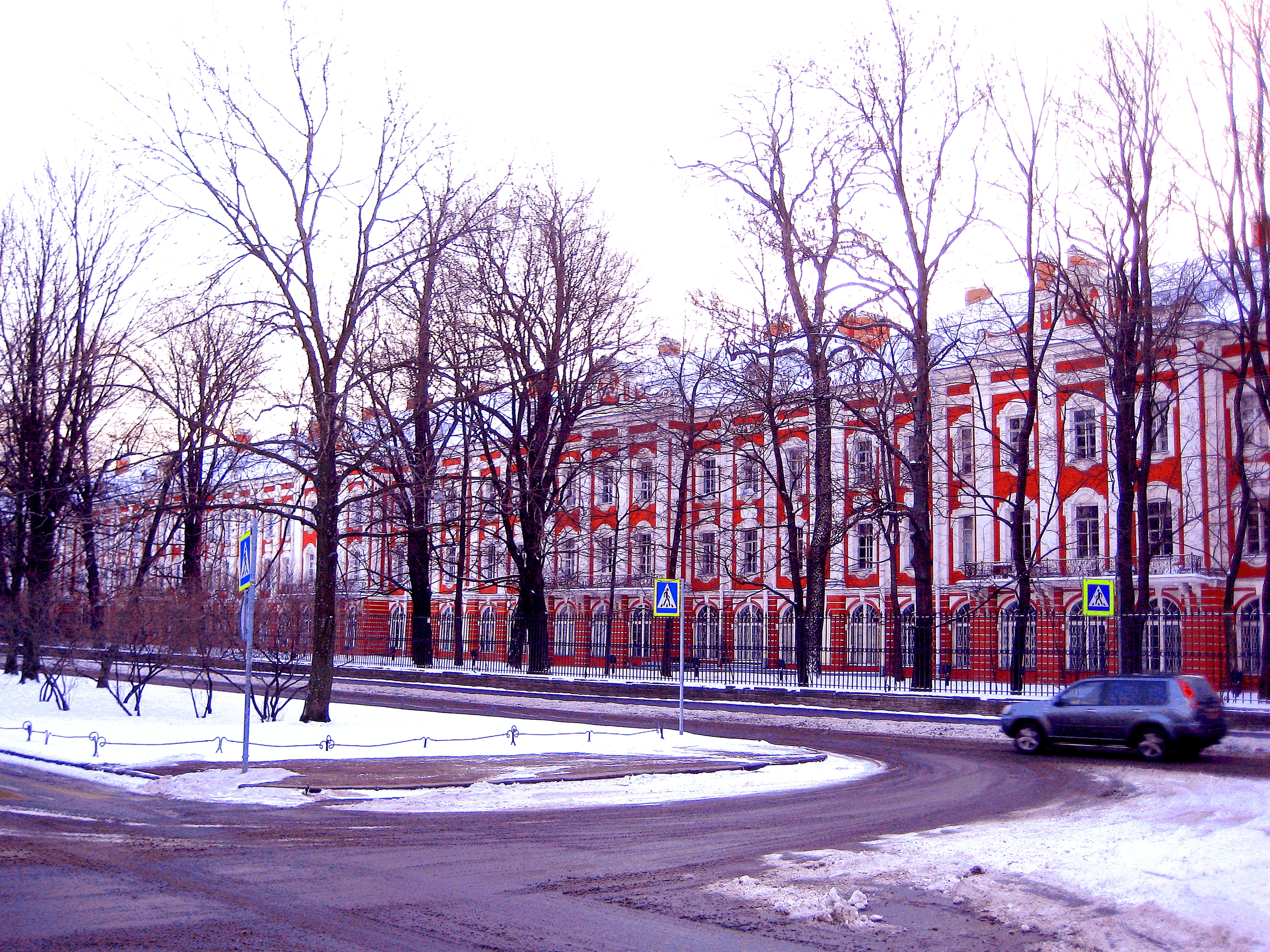 The building of the Twelve Collegiums (architect Domenico Trezzini), 1722-1742: Mendeleev's line, 2-4. Vasileostrovsky district, St. Petersburg.